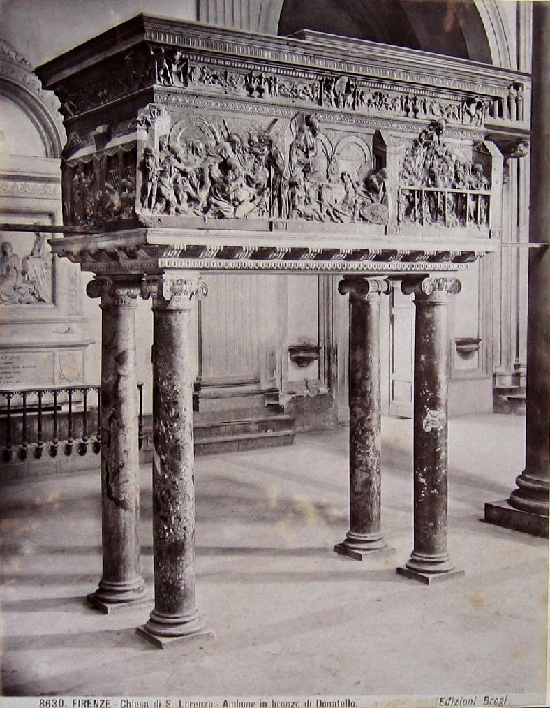 Carlo Brogi (1850-1925) - "Florence. San Lorenzo church - Bronze pulpit by Donatello". Catalogue # 8630.